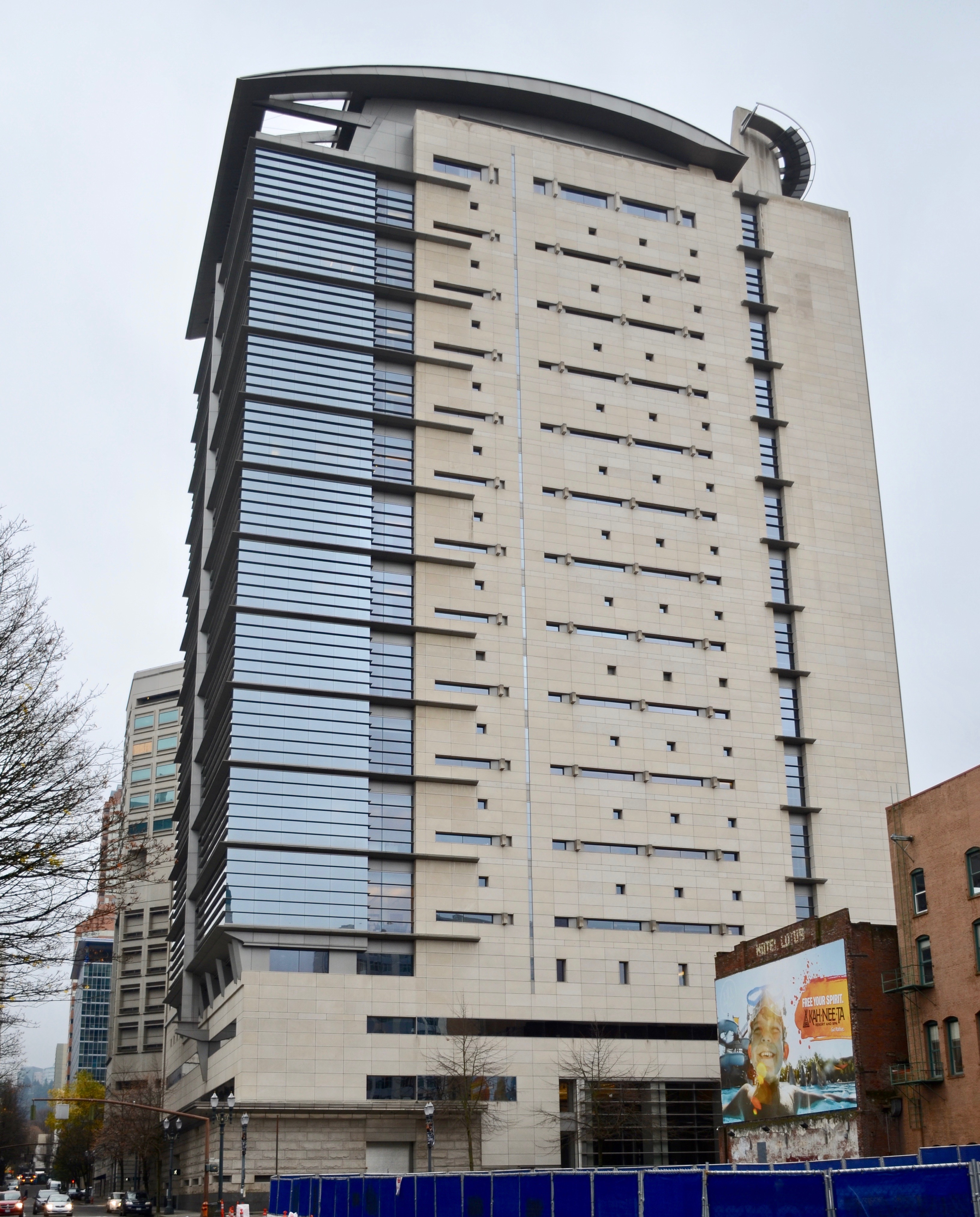 The Mark O. Hatfield United States Courthouse in Portland, Oregon, from the north in December 2017 – when the northern view of the building was temporarily almost completely unobstructed due to the recent completion of demolition the the Ancient Order of United Workmen Temple, which had stood in the foreground since long before the Hatfield Courthouse was built. New buildings are replacing the demolished AOUW Temple, causing this unobstructed view to once again disappear.